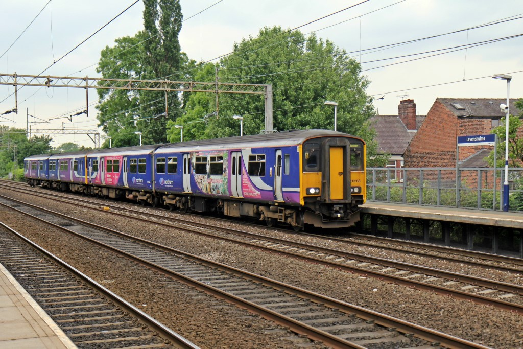 Northern Rail Class 150, 150268, Levenshulme railway station